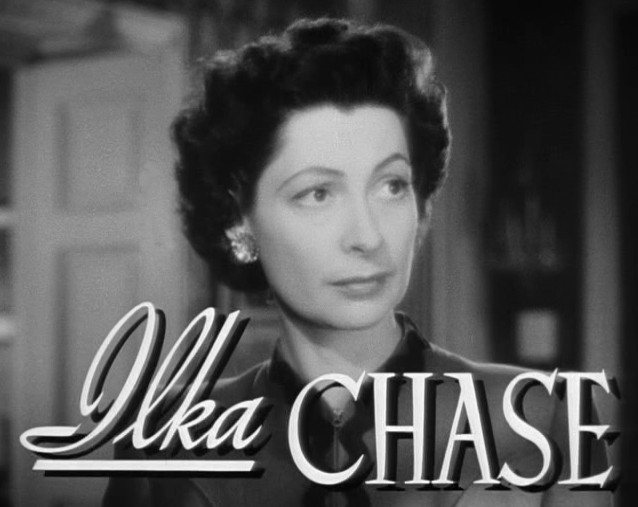 Cropped screenshot of Ilka Chase from the trailer for the film Now, Voyager.